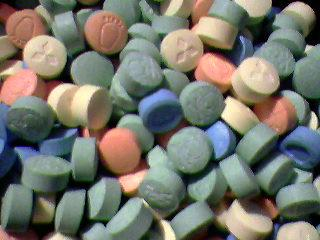 Assortment of Ecstasy pills.